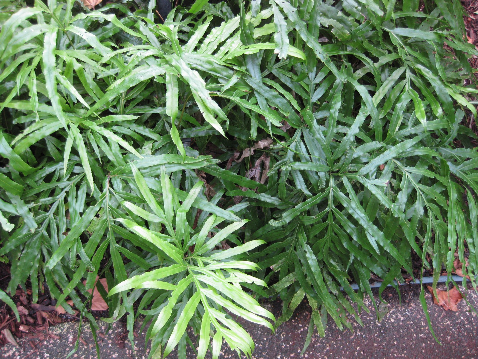 Photographed at the Royal Botanic Gardens Sydney (Australia) in January